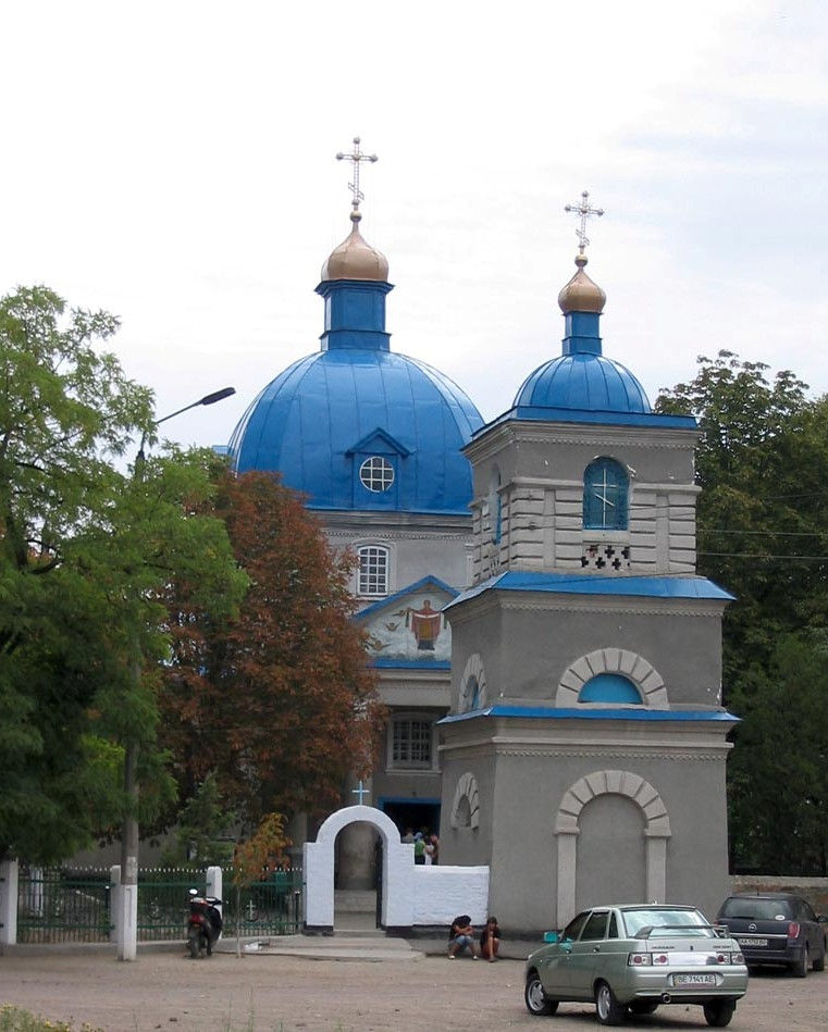 Bogopol